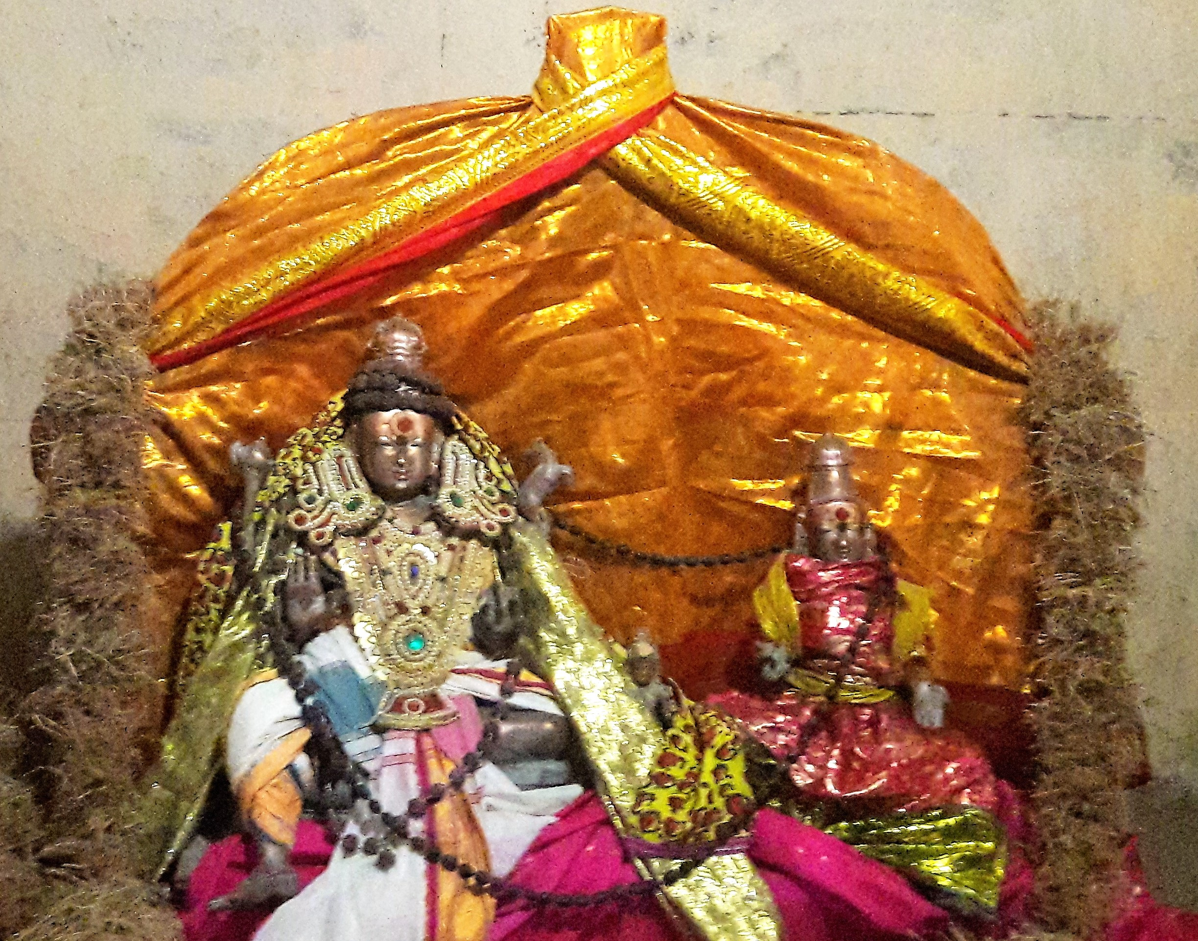 Adhi Ratneswarar Temple, Thiruvadanai